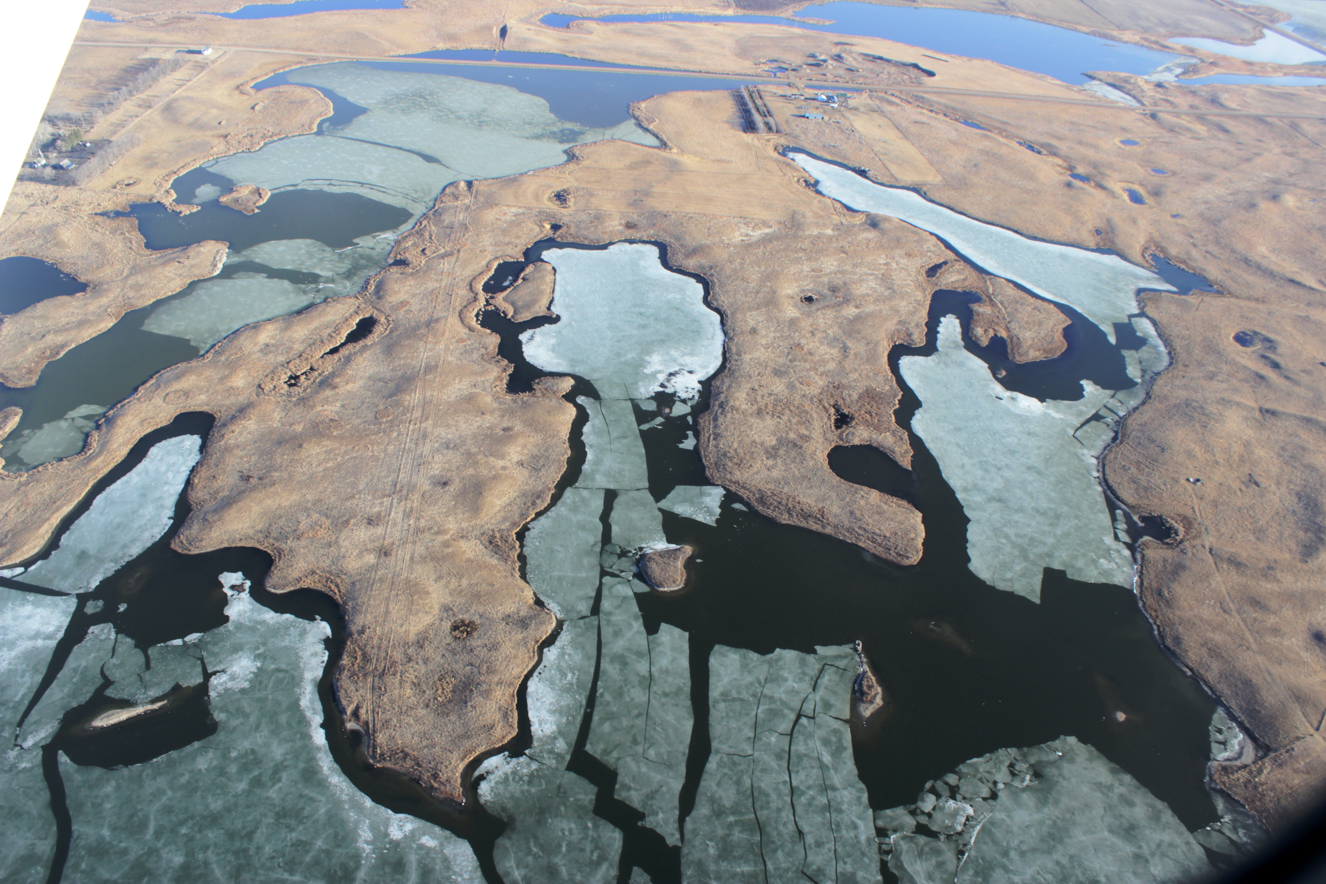 Warm spring temperatures and winds have done their work on ice that was approximately 2 feet thick in the Kulm Wetland Management District this winter. Photo Credit: Krista Lundgren/USFWS